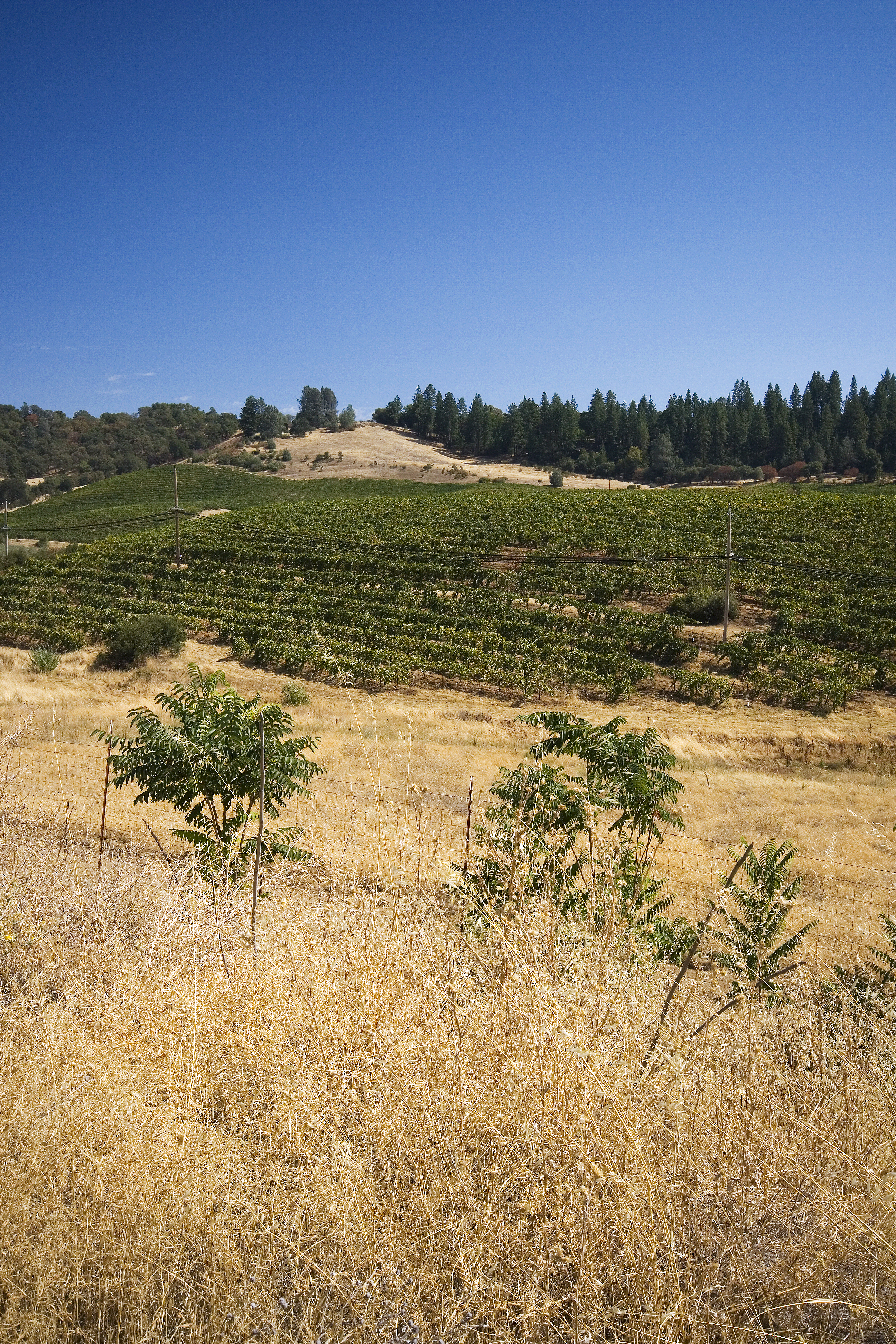 Vineyard in California Shenandoah Valley AVA, River Pines, CA